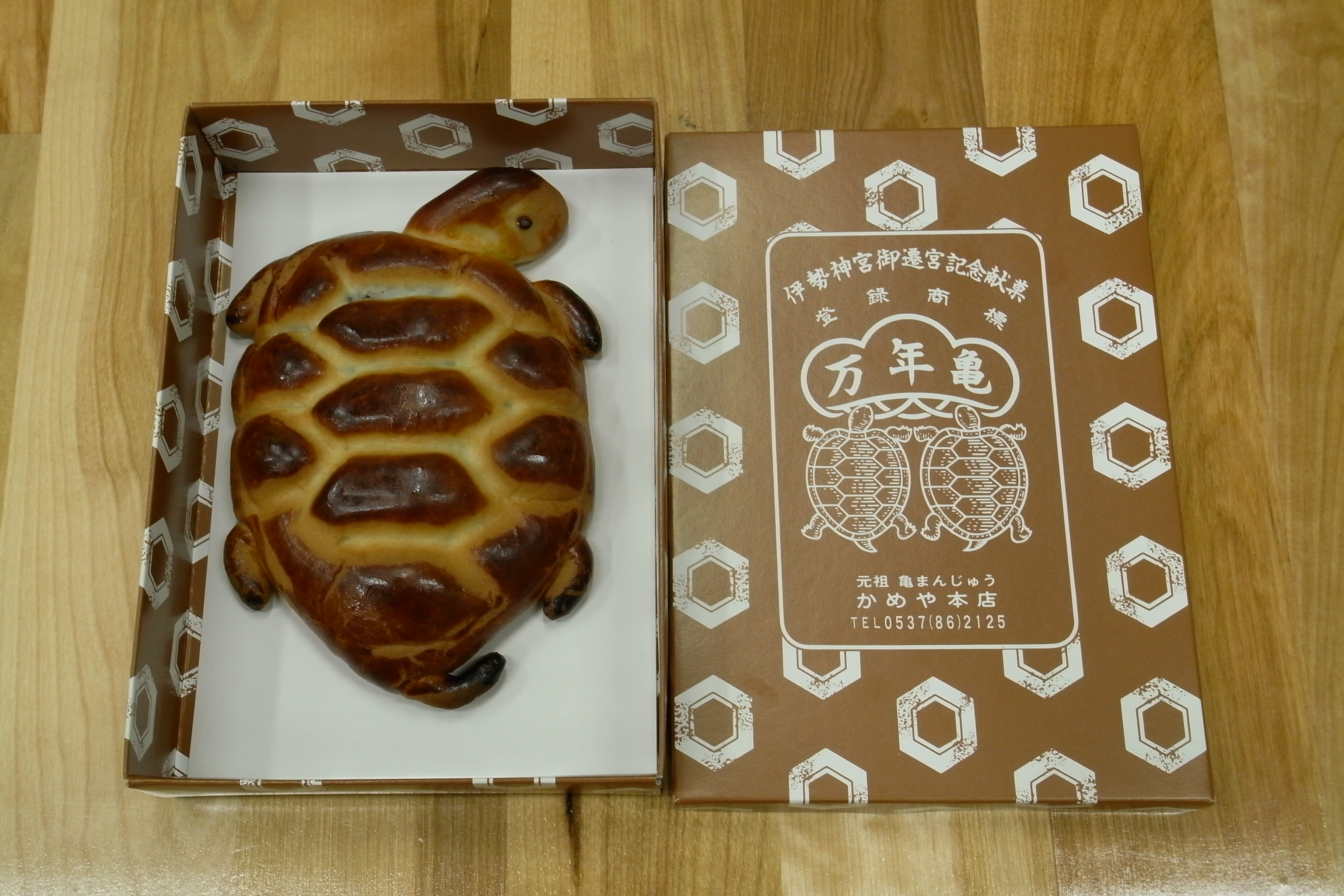 Kame Manjū made by Kameya Corporation